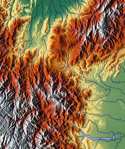 Relief map showing the Táchira depression between the Tamá Massif to the west from the Cordillera de Mérida to the east